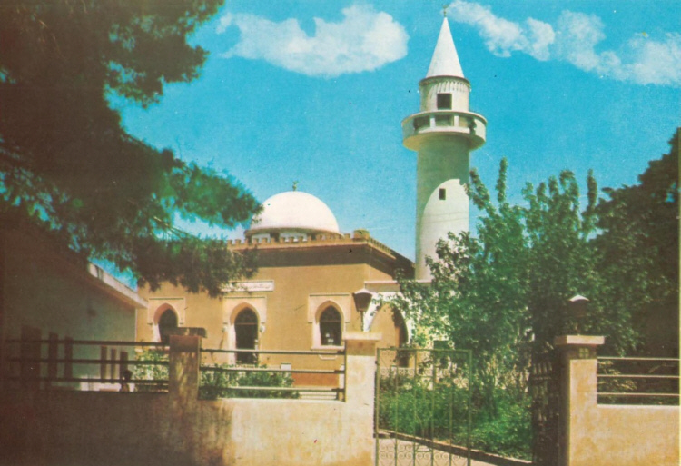 The tomb of Sidi Rafa in Bayda - Libya, 1960′s .